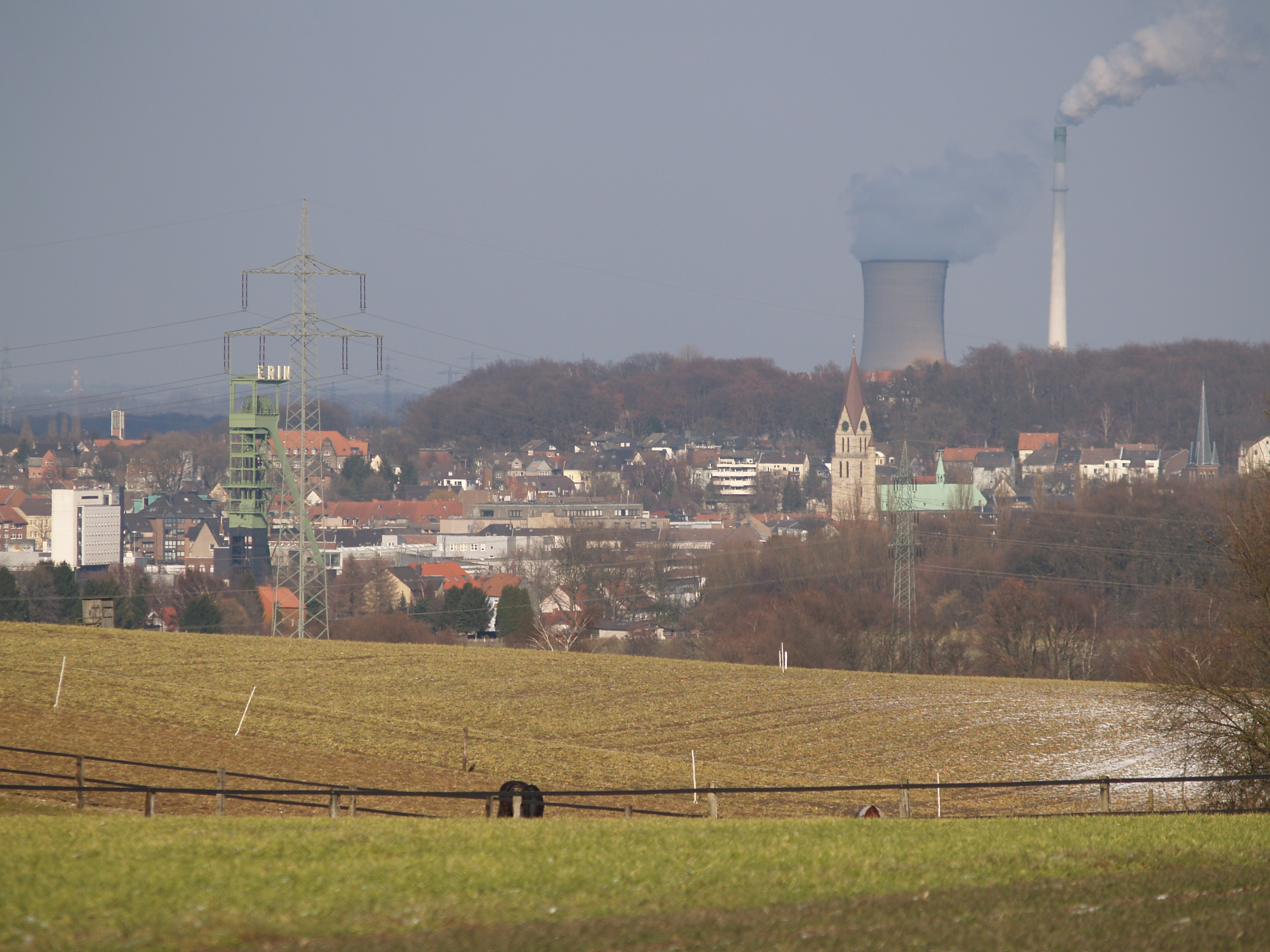 Part Castrop of Castrop-Rauxel, seen from Herne